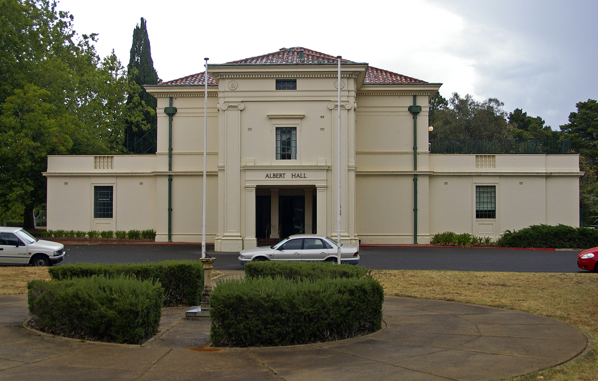 Albert Hall in Canberra.